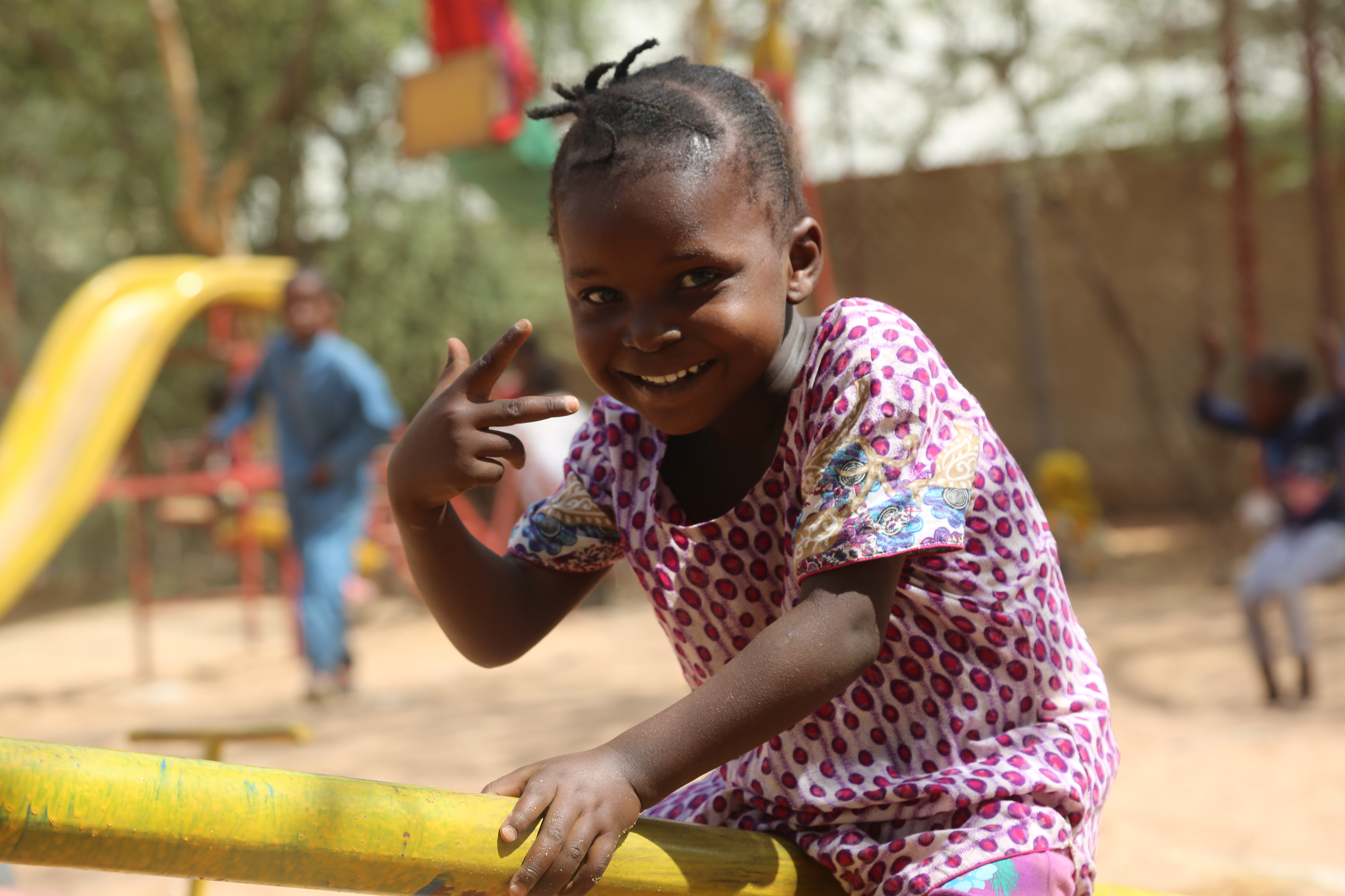 This is an image with the theme "Play" from: Kenya